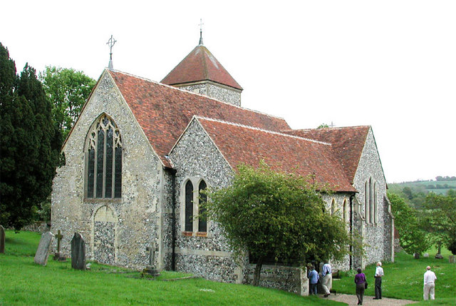 St Lawrence, Godmersham, Kent